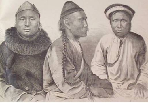 An litography showing three peoples of Siberia. A Samoyedic, a Manchu and a Evenki.